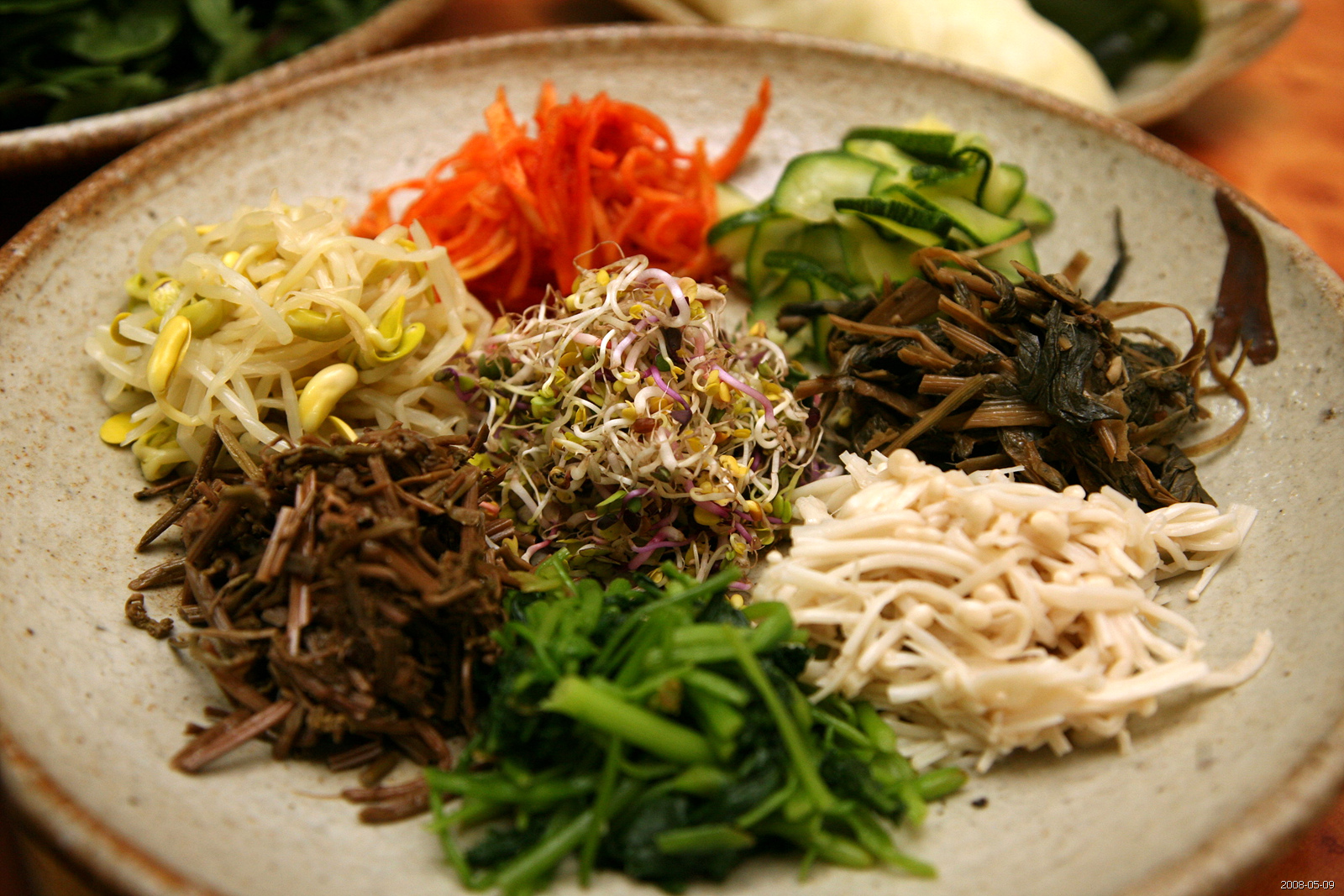 An plate of namul (sauteed vegetables) for bibim ssambap (a variant of bibimbap and ssambap) at a restaurant in [Gyeongju], North Gyeongsang province, South Korea